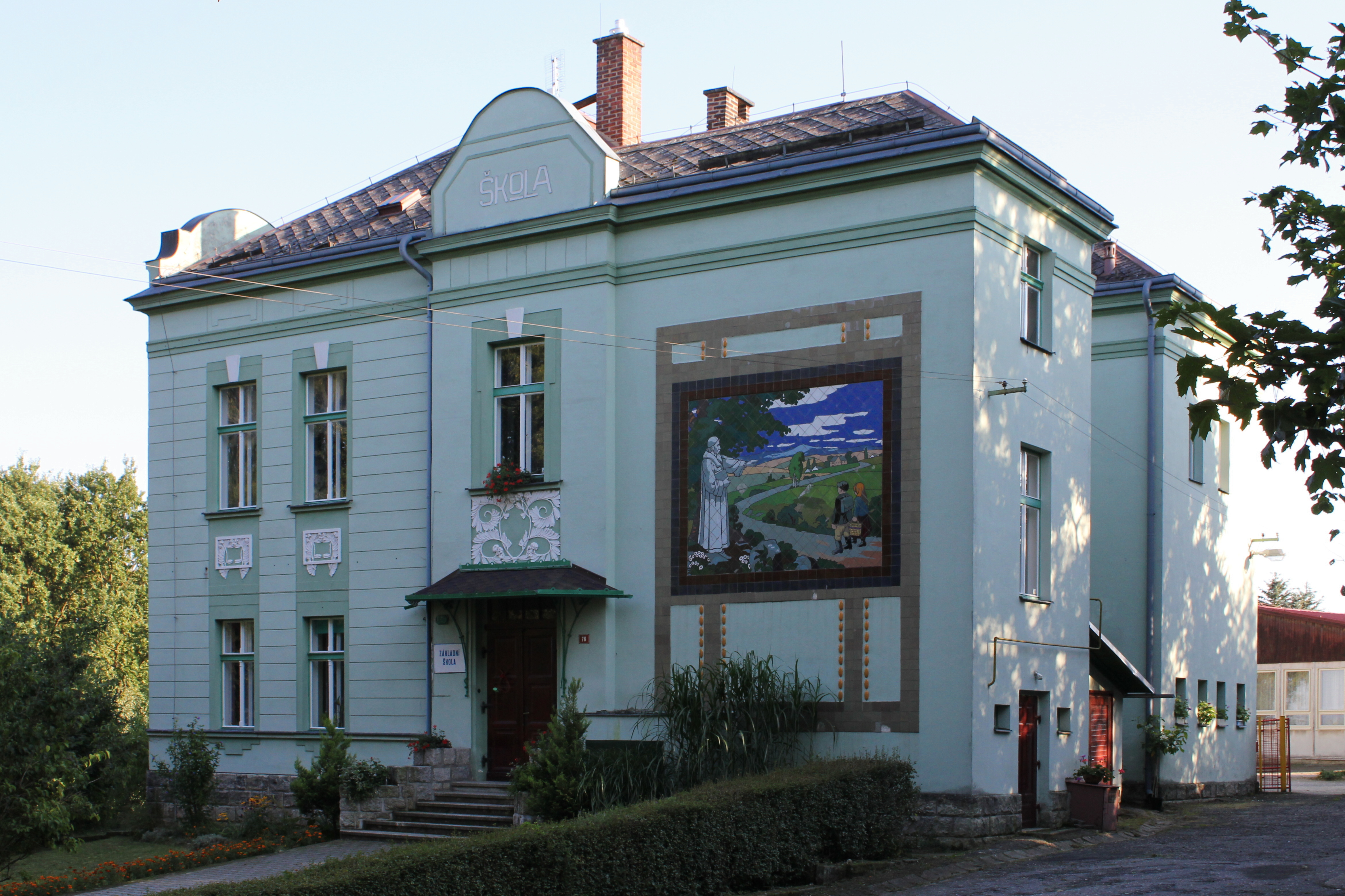 Svijanský Újezd Elementary